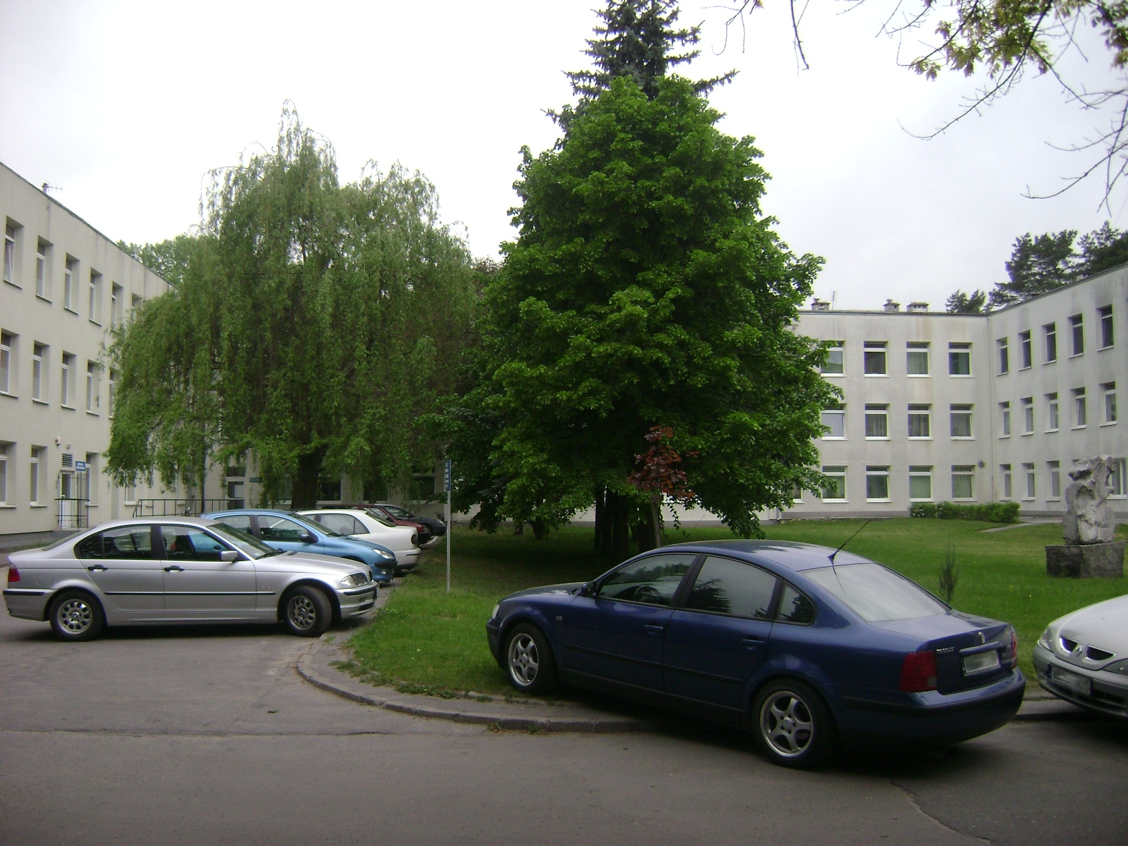 Poland. Konstancin-Jeziorna. Stocer